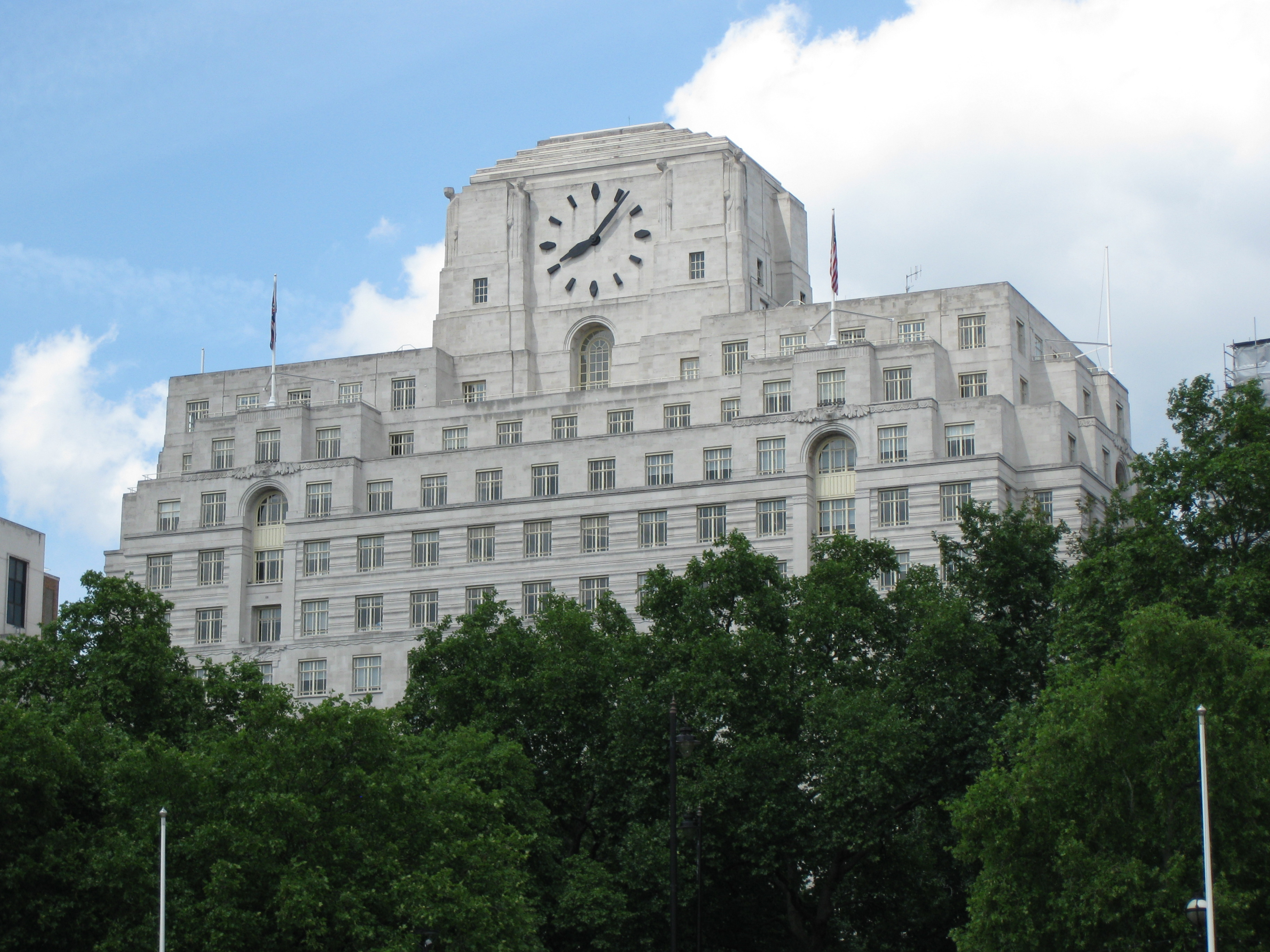 This photo was taken at 12:46, so it appears that the clock has stopped.